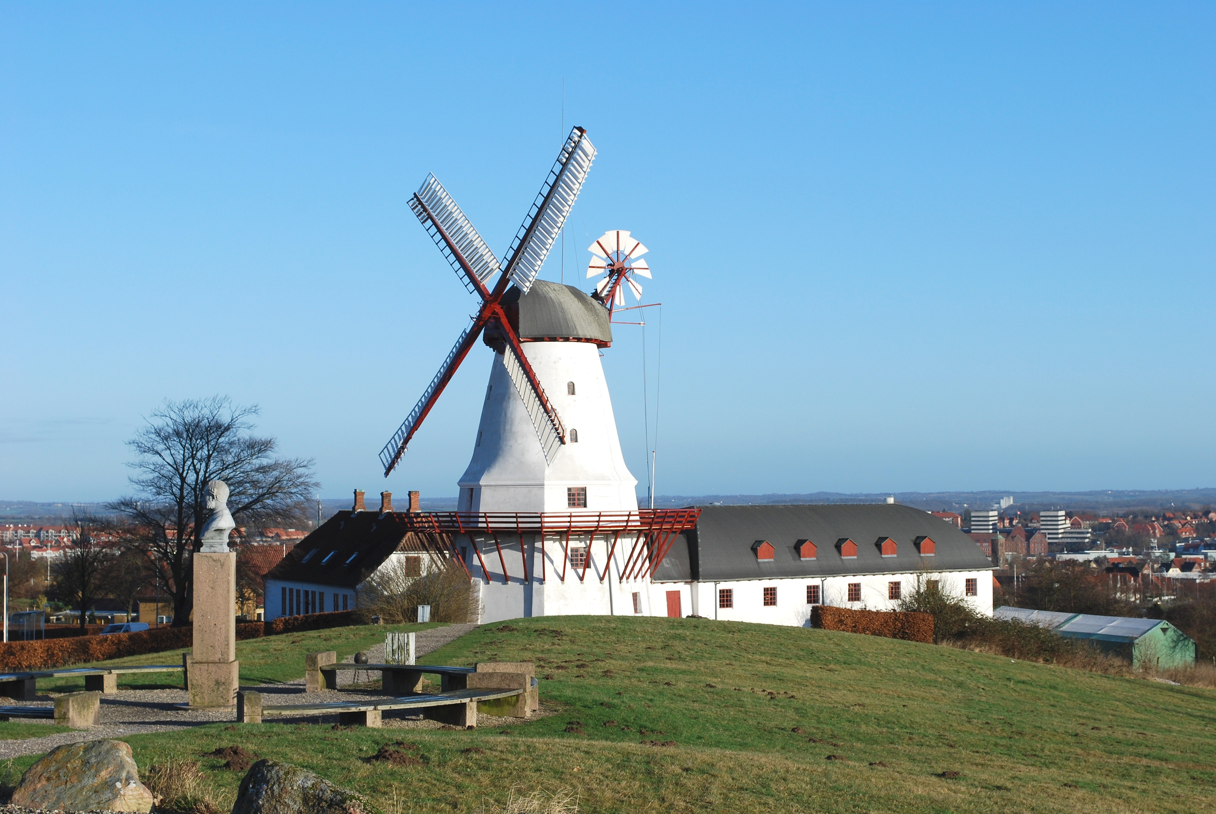 Dybbøl Mølle, Denmark